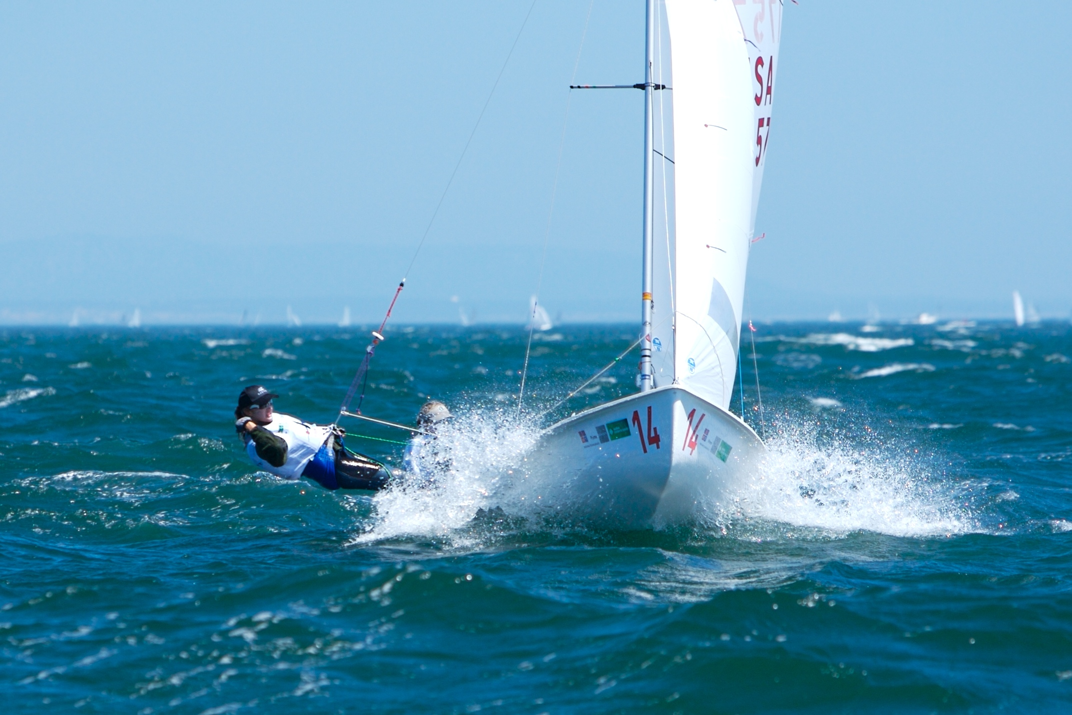 2008 470 World Champions Erin Maxwell and Isabelle Kinsolving sailing in Cascais, July 2007.